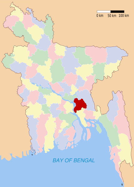 District locator map in red in Bangladesh